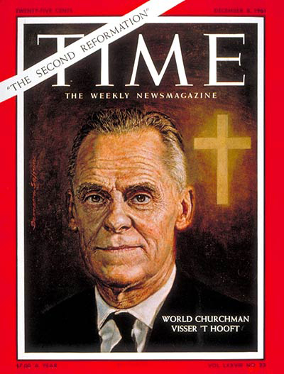 Time magazine, Volume 78 Issue 23. Front cover is an illustration of Willem Visser't Hooft.